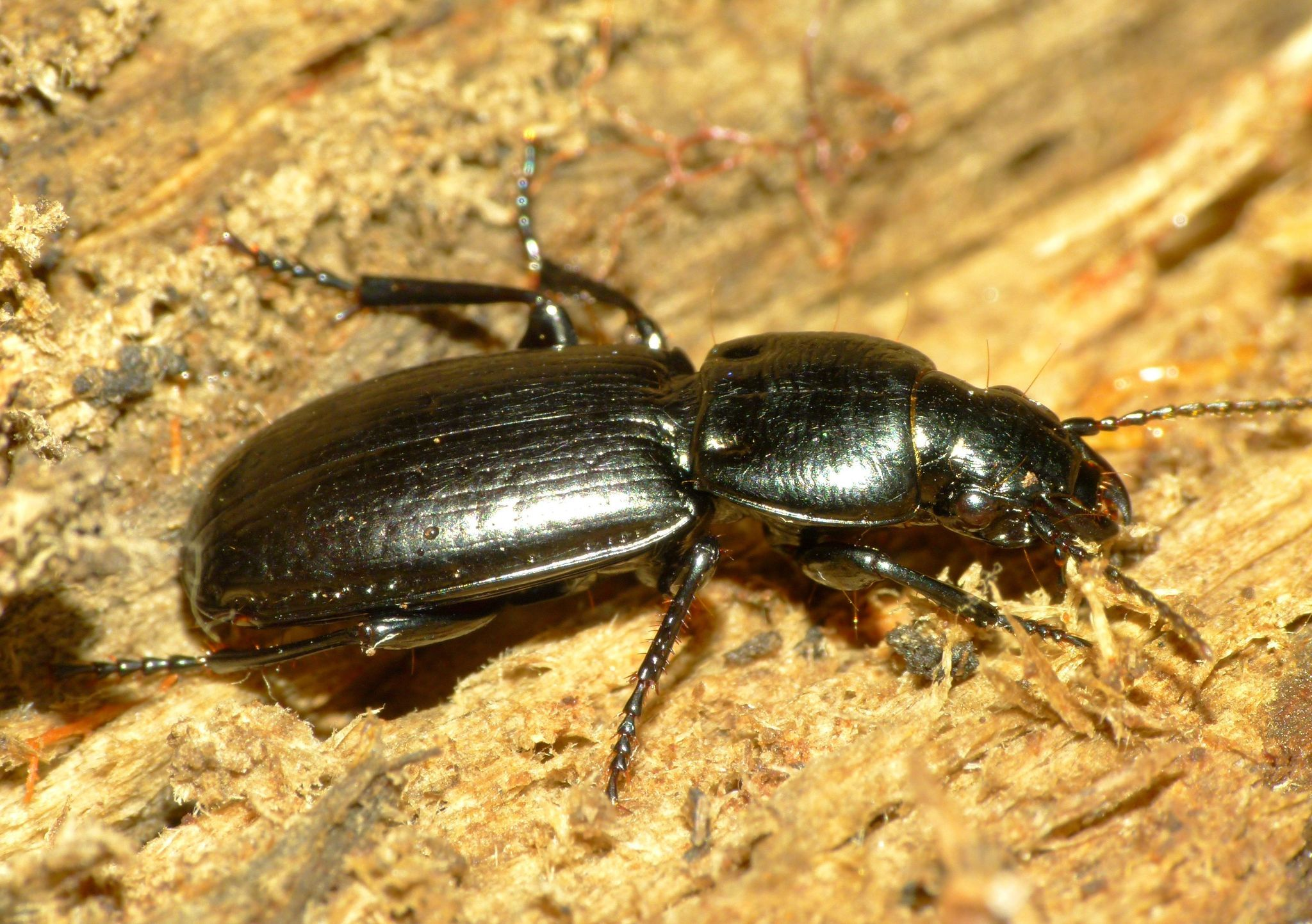 Holcaspis species photographed by Steve Kerr, photographed 9 February 2014 at Piano Flat, Southland, New Zealand